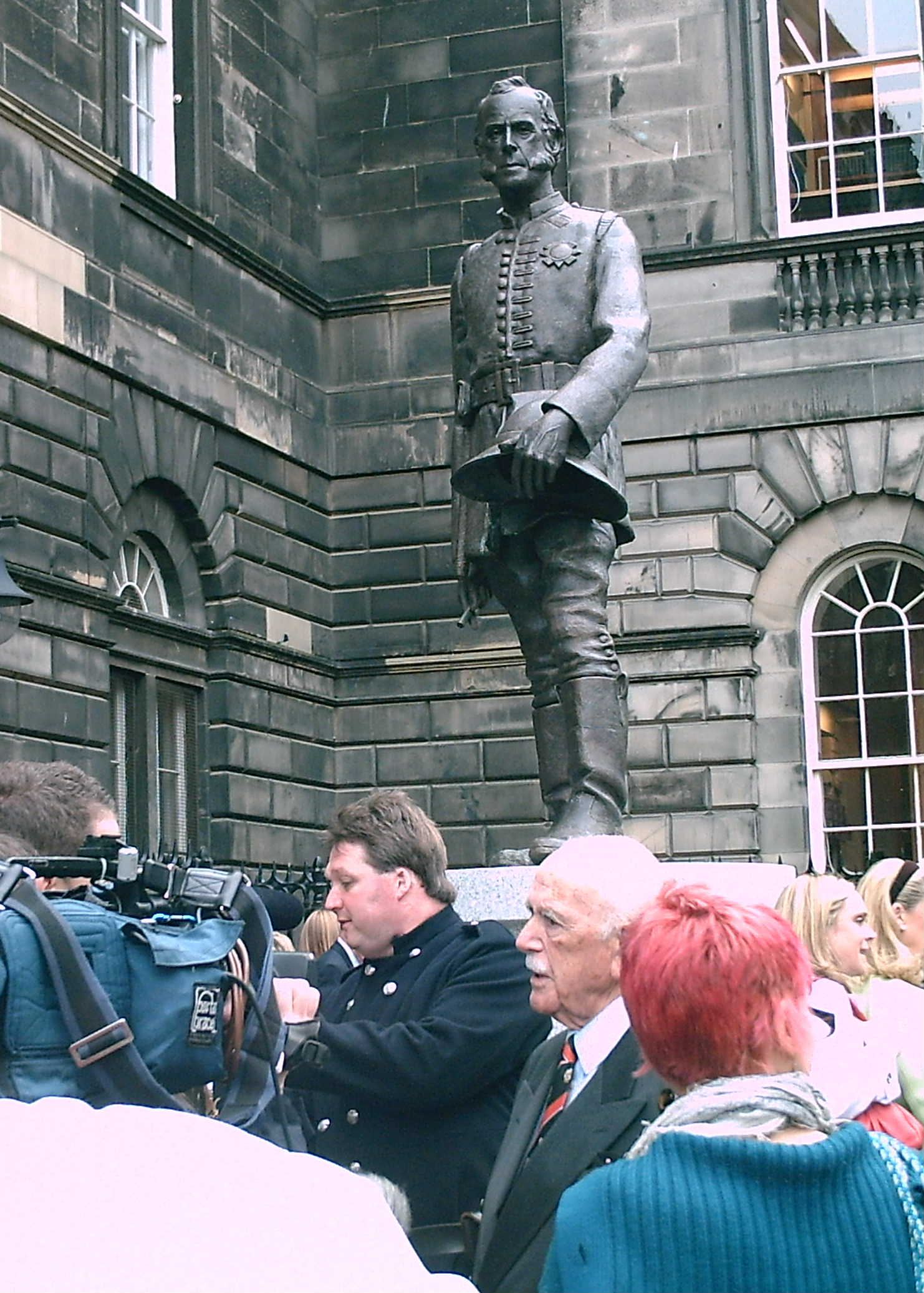 The new statue of the firemaster James Braidwood on the day of its unveil taken on 5 Sept 2008. The person at the foot of the statue in dark suit is Dr Frank Rushbrook CBE - main sponsor of the statue. The statue is located in Parliament Square (near The Royal Mile) in the city of Edinburgh, UK. Taken with Ricky Carvel)